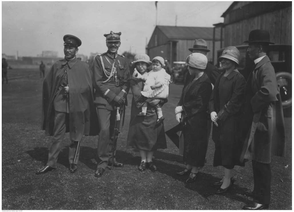 Japanese military attaché Harukichi Hyakutake (first from the right) with family and general John Karol Wroblewski (second from left) in Poland.